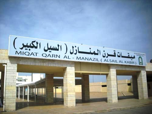 Qarnu 'l-Manāzil